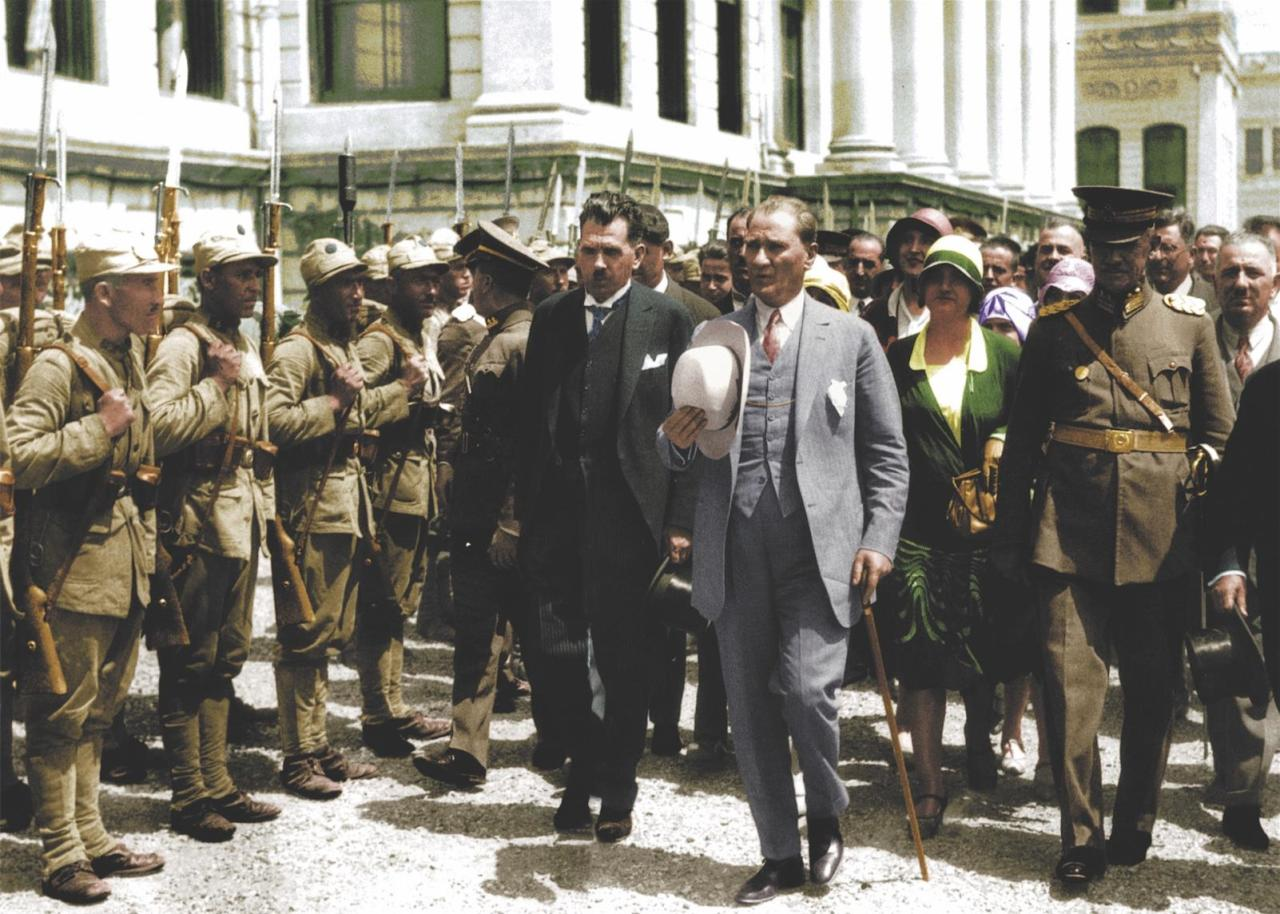 Mustafa Kemal Atatürk during one of his national tours.